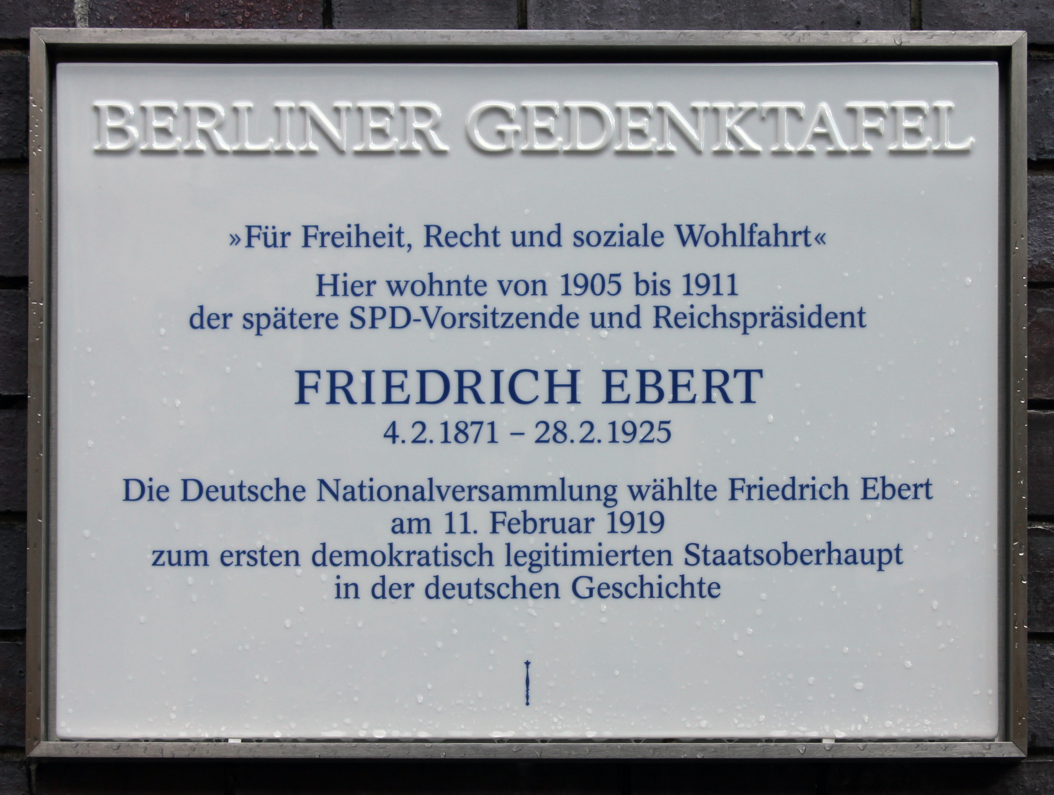 Berlin memorial plaque, Friedrich Ebert, Neue Bahnhofstraße 12, Berlin-Friedrichshain, Germany